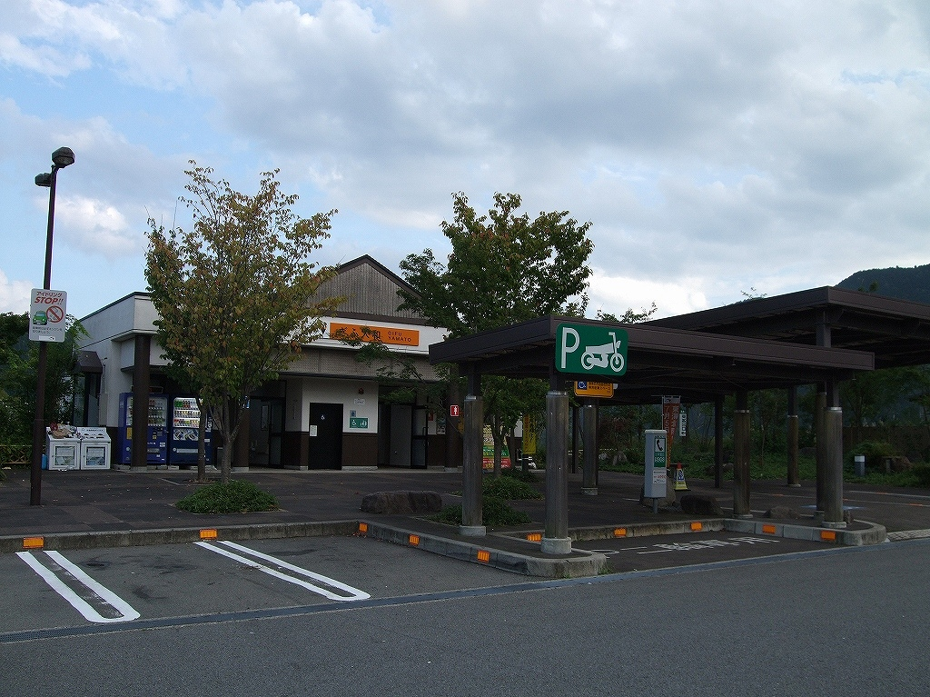 Gifu-Yamato Parking Area on the Tokai-Hokuriku Expressway outbound line